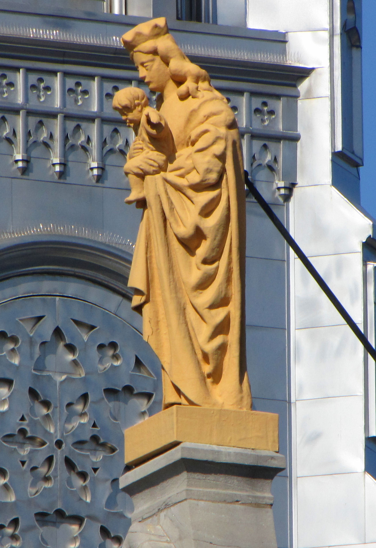 Madonna, statue, Notre-Dame Cathedral Basilica, Ottawa, Ontario, Canada